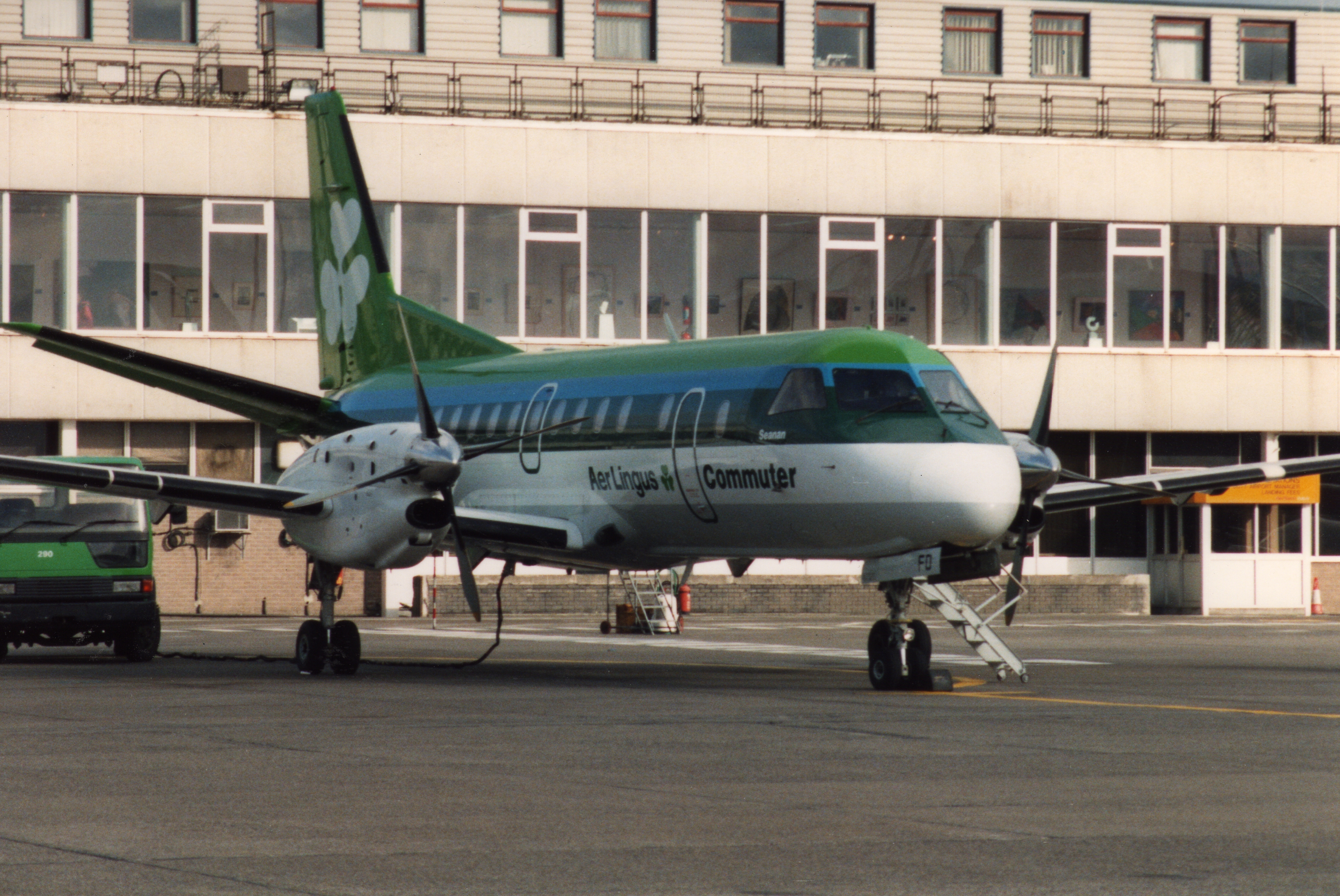 Aer Lingus (EI-CFD) Saab 340 aircraft, Dublin Airport, Dublin, Republic of Ireland, February 1993